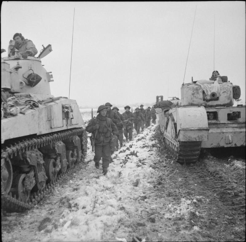 The British Army in North-west Europe 1944-45 Men of 4/5th Royal Scots Fusiliers pass between a Sherman and a Churchill tank during 52nd (Lowland) Division's attack towards Stein from Tuddern, 18 January 1945